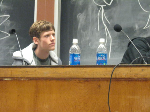 moot, founder of 4chan